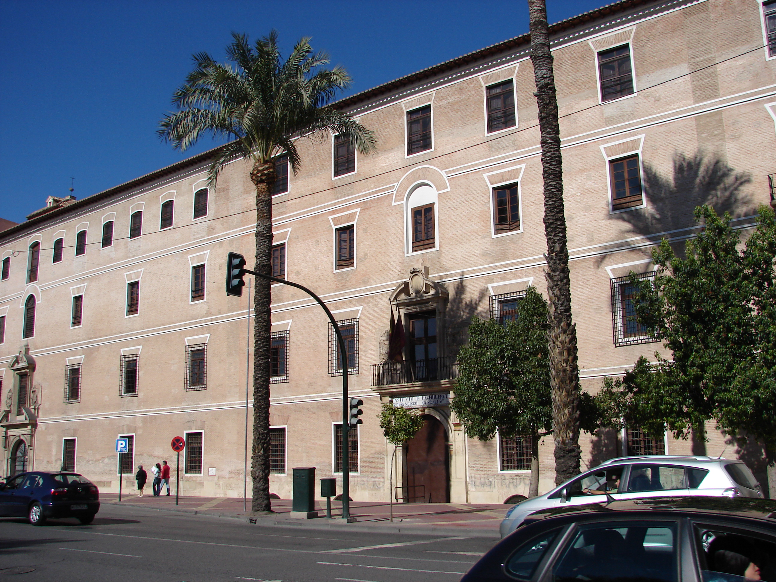 Detail of the city scenery in Murcia, Spain. Photo: Ole Kristian Sandvik.